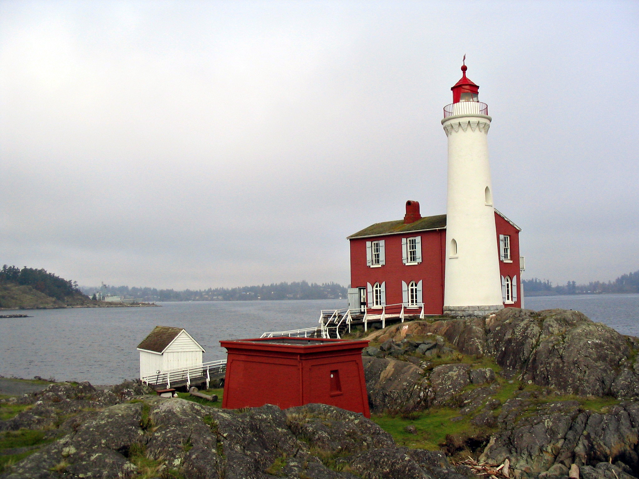 Fisgard Lighthouse, Victoria, British Columbia, Canada